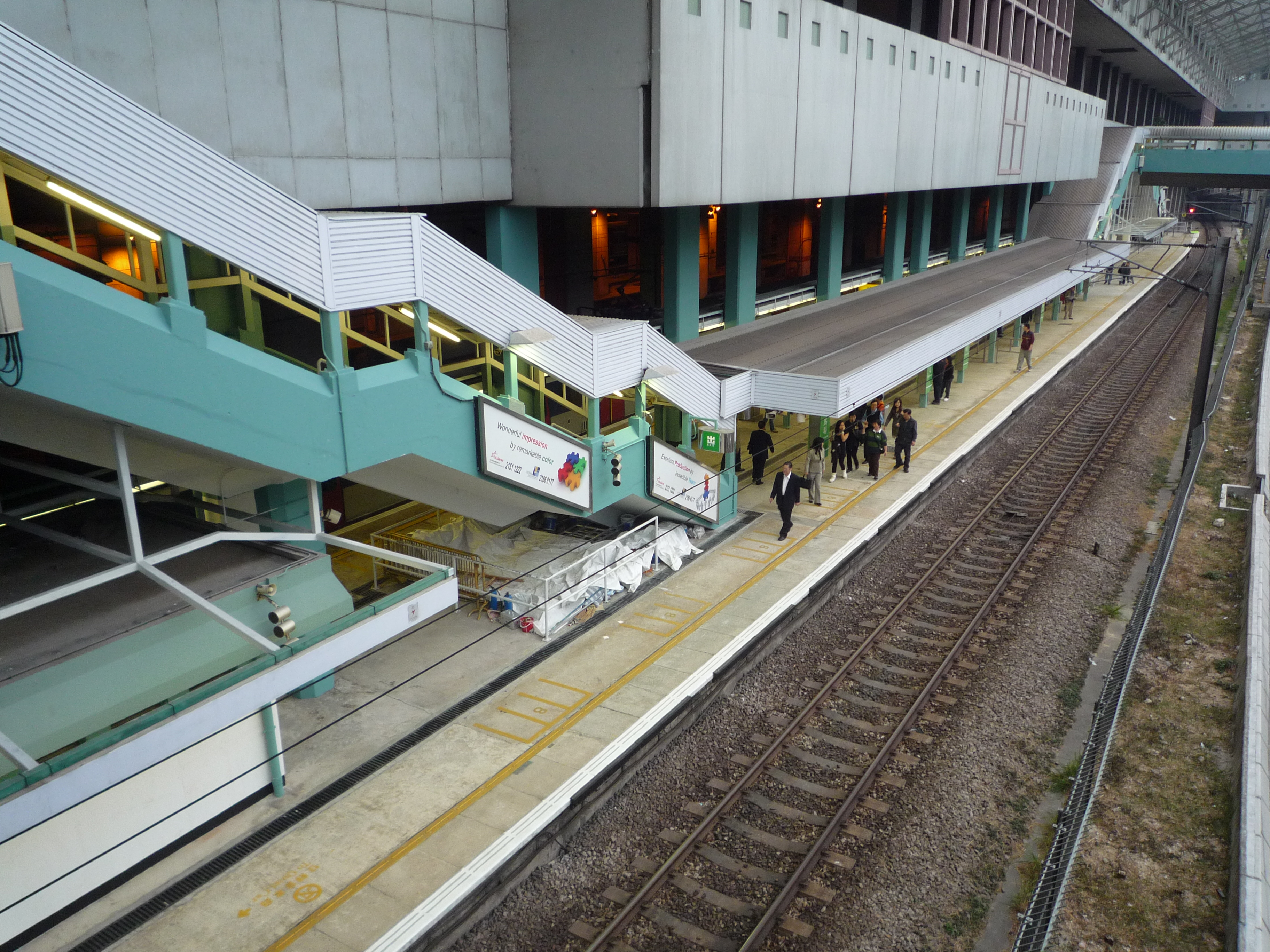 MTR Racecourse Station Station Platform 2 中文（香港）: 港鐵馬場站二號月台